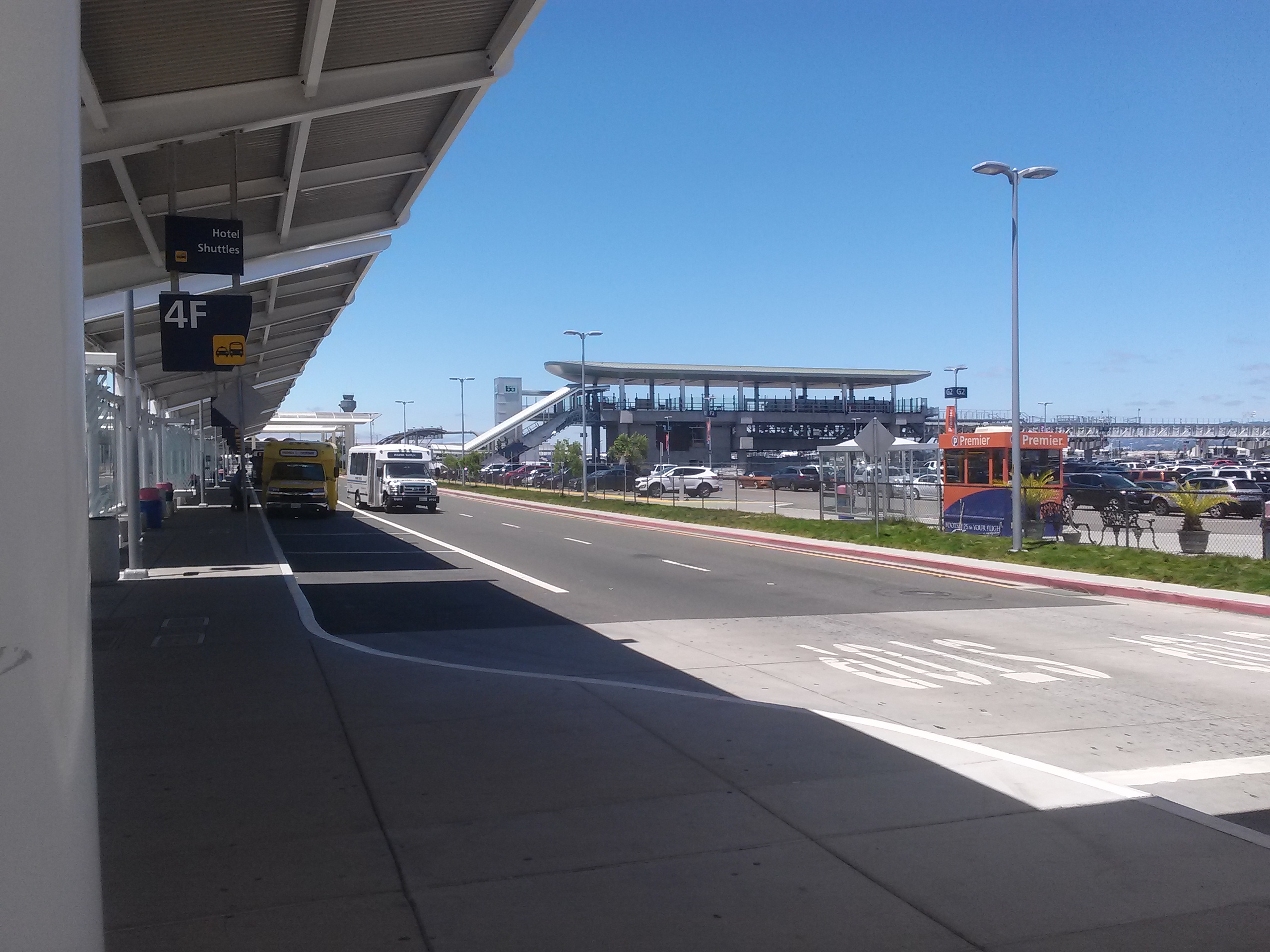 Oakland Airport Connector (OAC)